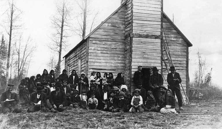 Photograph, Rev. Woodhall and aboriginal congregation, Waskaganish (Rupert House), QC, about 1910, Samuel Herbert Coward, Silver salts on paper mounted on paper - Gelatin silver process - 8 x 10 cm